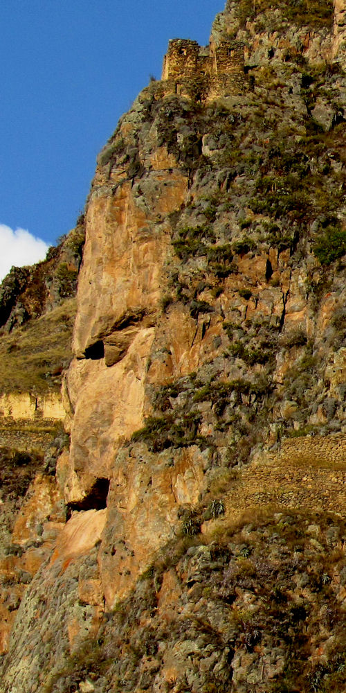 Tunupu monument at Ollantaytambo, Peru